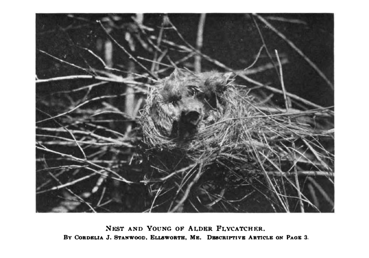 Black and white photograph of an Alder Flycatcher (Empidonax alnorum) nest and young taken by Cordelia J. Stanwood and published in the Journal of the Maine Ornithological Society in December 1909